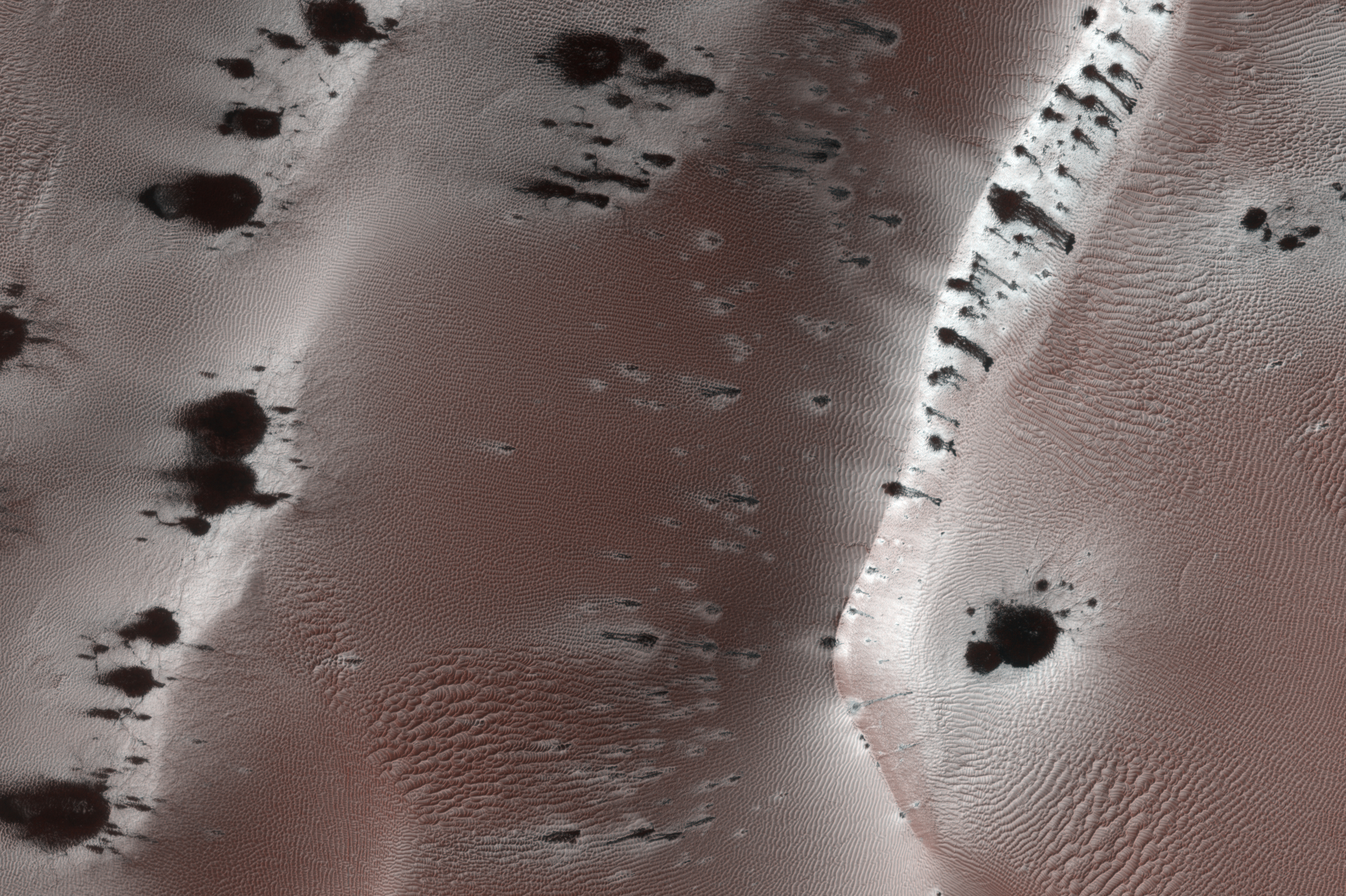 Image of Mars southern hemisphere dunes, showing dark dune spots. These dark spots may have resulted from cold gas jets that form by sublimation of the ice bringing entrained dust to the surface. Small dark streaks may have formed by avalanches of sand or they may be patches of coarse-grained ice that are clear enough so that the dark material below the ice is visible. The color image also provides helpful clues to understand this process. Bright white frost can be seen covering the surface. This frost is a probably a combination of frozen water and carbon dioxide ice. These bright patches are particularly prevalent along dune slip faces and around dark spots.